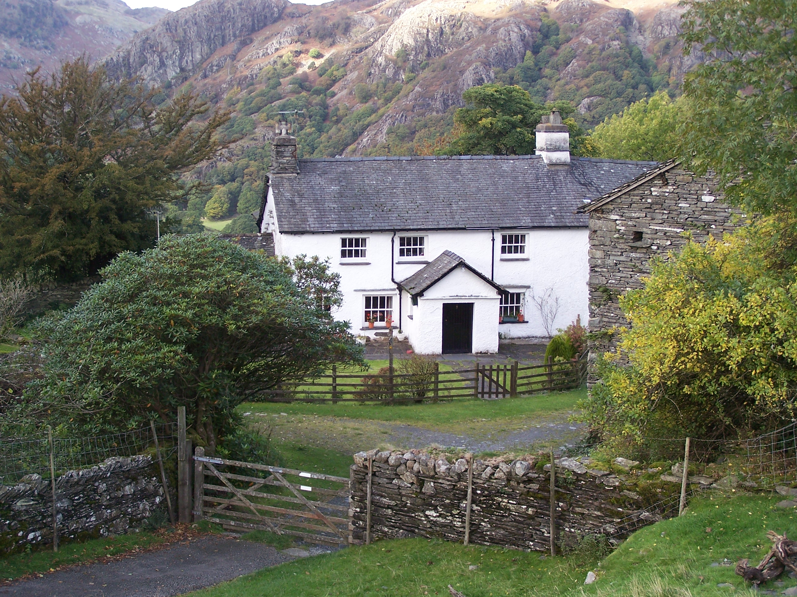 Cottage to the west of Tarn Howes near Coniston, Cumbria, UK